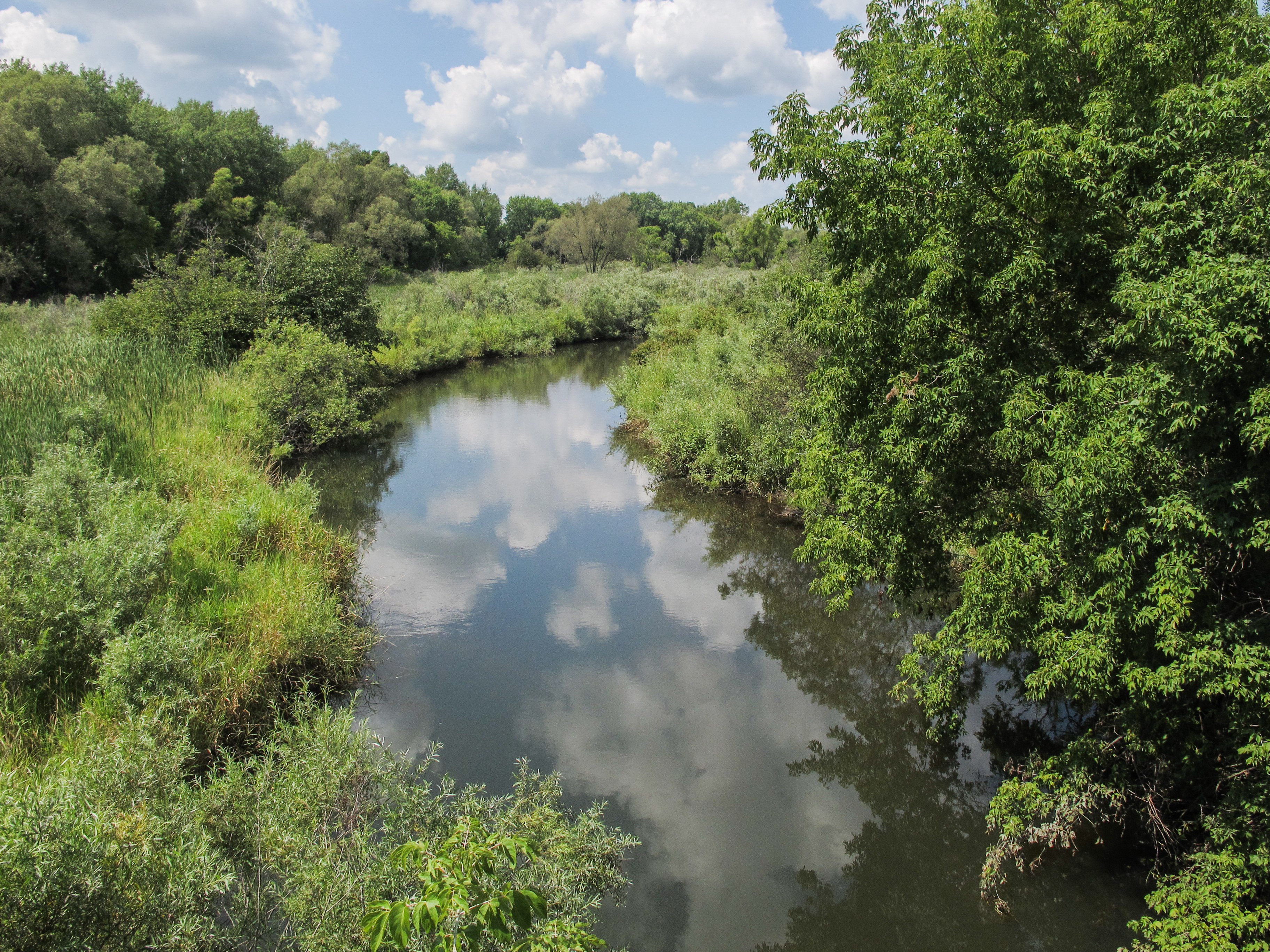 The Hersey River as viewed from the west side of North Roth Street in Reed City, Michigan